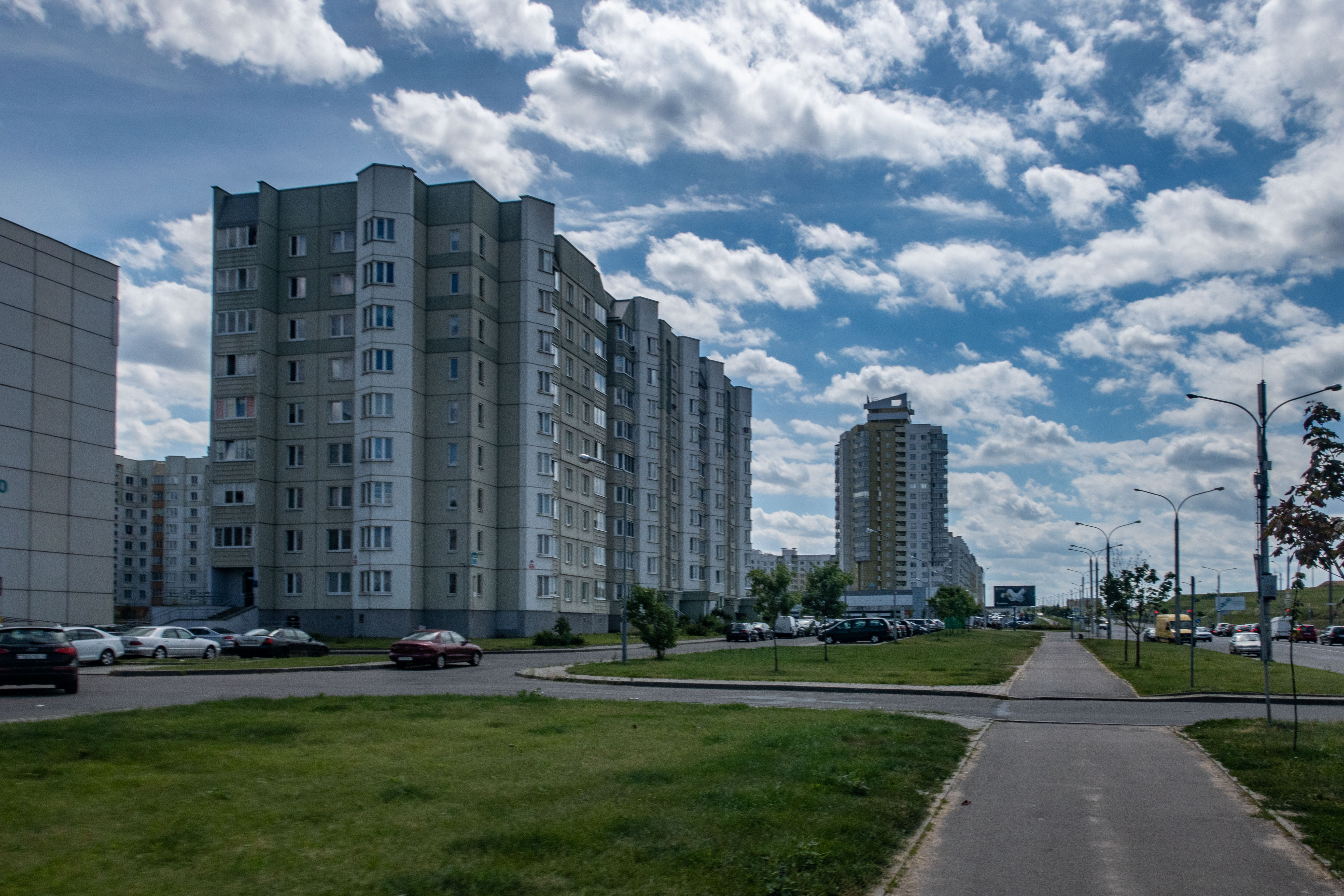 Kamiennaja Horka-3. Minsk, Belarus